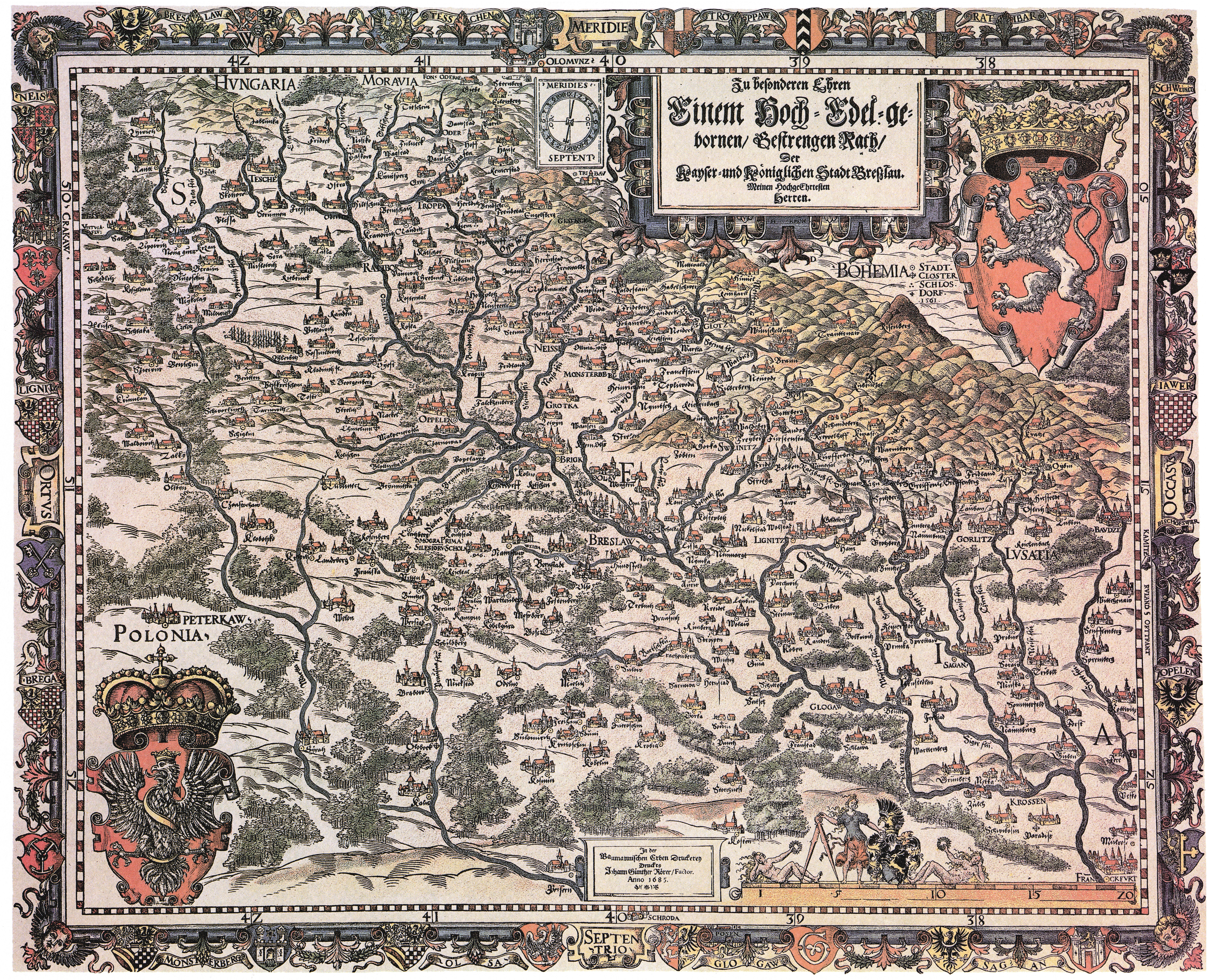 First woodcut map of Silesia, published 1561 by cartographer Martin Helwig, south direction on top edge, reprint from 1685.